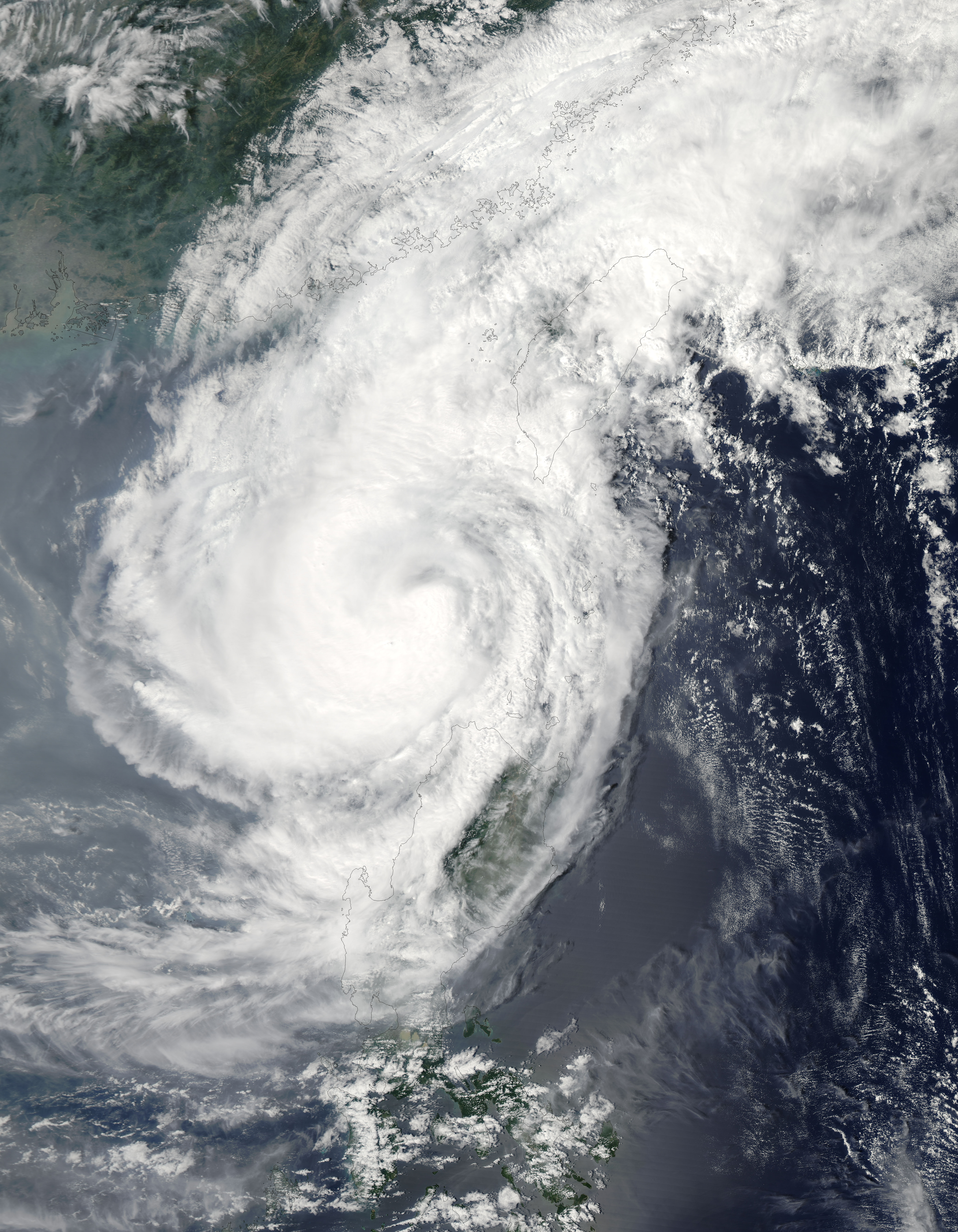 Downgraded to a tropical storm, Parma moved away from the Philippines on October 5, 2009. The Moderate Resolution Imaging Spectroradiometer (MODIS) on NASA’s Aqua satellite captured this true-color image the same day. The center of the storm appears midway between Taiwan and Luzon, but to the west of both islands. The northern margin of the storm skirts the coast of China. According to a report from the Joint Typhoon Warning Center issued at 15:00 UTC (11:00 p.m. Manila time) on October 5, 2009, Parma was located approximately 330 nautical miles (approximately 610 kilometers) east-southeast of Hong Kong. The storm had sustained winds of 55 knots (roughly 100 kilometers per hour) with gusts up to 70 knots (roughly 130 kilometers per hour).